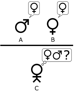 The imitation game, as described by Alan Turing in "Computing Machinery and Intelligence". Player C, through a series of written questions, attempts to determine which of the two players is a man, and which of the two is the woman. Player A - the man - tires to trick player C into making the wrong decision, while player B tries to help player C. Turing uses this game as the basis for his test for intelligence.